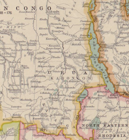 Part of a historic map of Africa, showing especially Urua (Kasongo's) in the middle. Made by Sir Edward Hertslet (1824-1902), published in London 1909